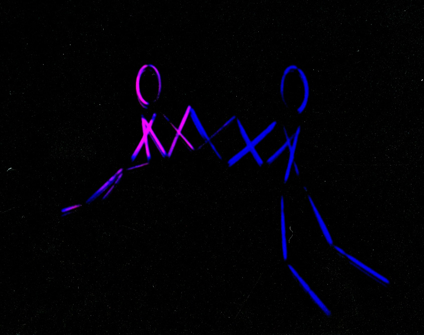 HISTOIRE D'AMOUR, flying marionettes, Nikolai Zykov Theatre, Russia. Nikolai Zykov - Soviet and Russian actor, producer, artist, designer, puppet-maker, master puppeteer, author of over 20 puppet performances. Nikolai Zykov has created and has made over 80 puppet vignettes with participation of marionettes, hand, rod, giant, radio-controlled and experimental puppets. Nikolai Zykov has performed in 35 countries around the world.